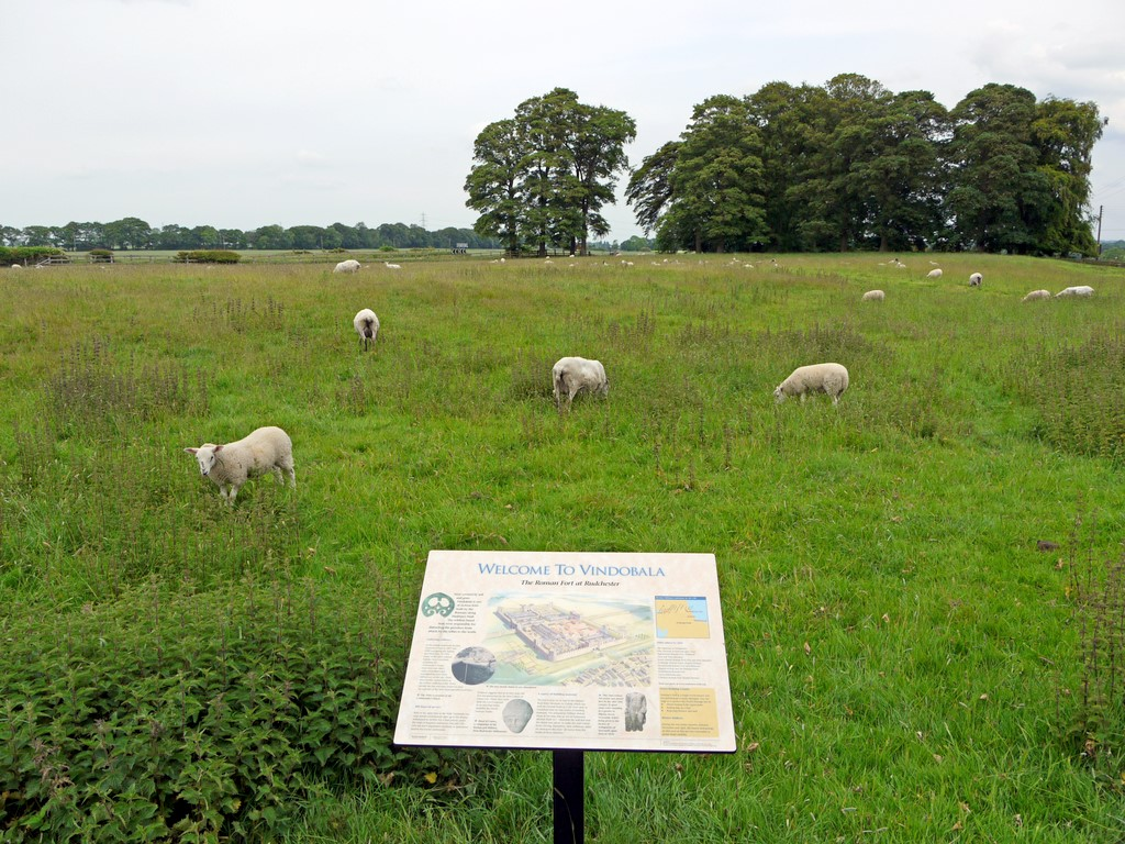 Vindobala Roman Fort, Rudchester